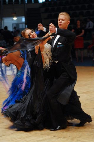 Ballroom